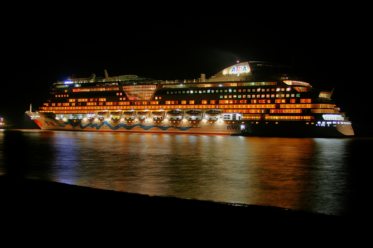 AIDAdiva at port IMO Number: 9334856 MMSI Number: 247187700 Callsign: ICDH Length: 252 m Beam: 38 m